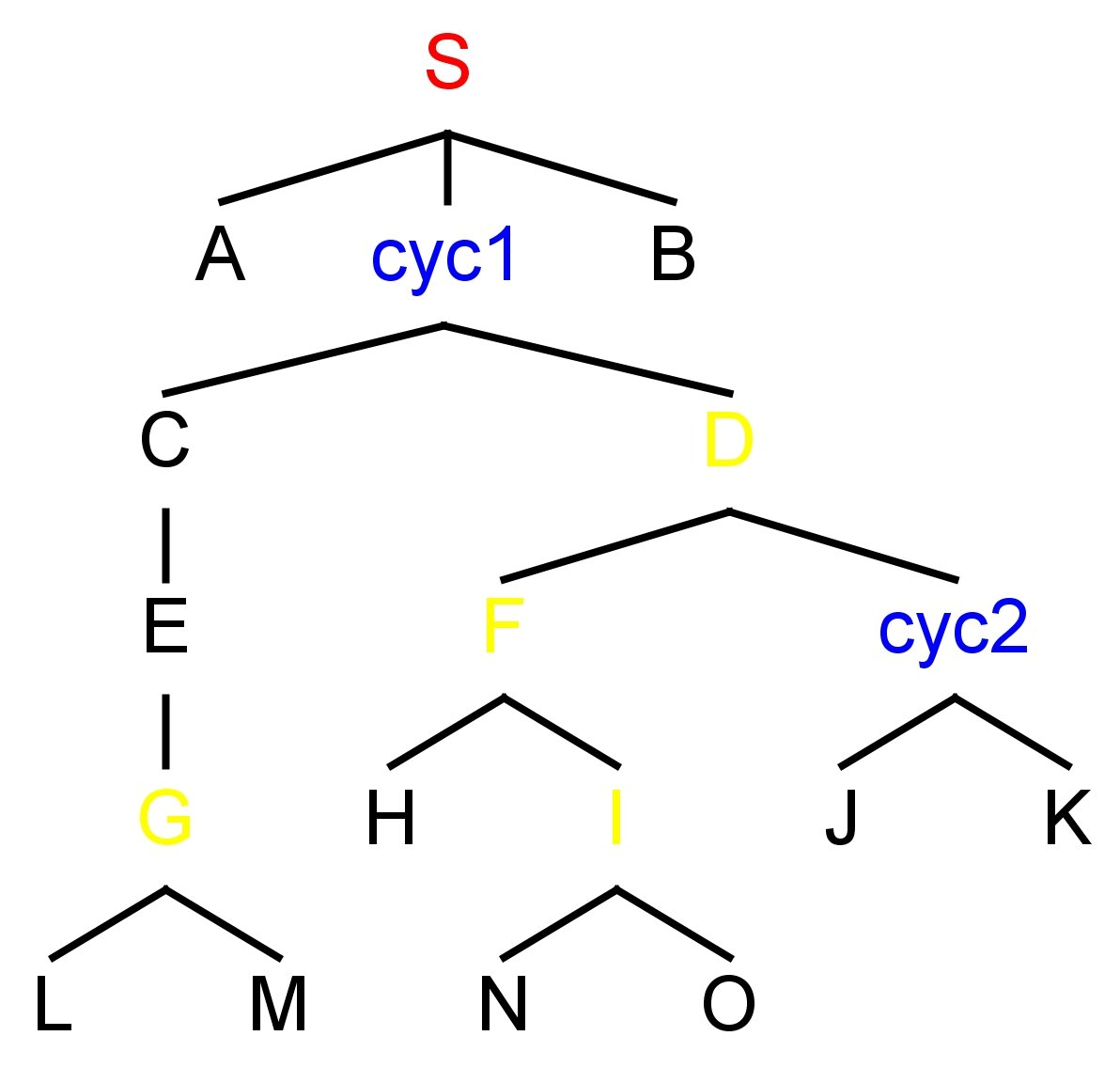 Even better tree showing the history of the concept of command.